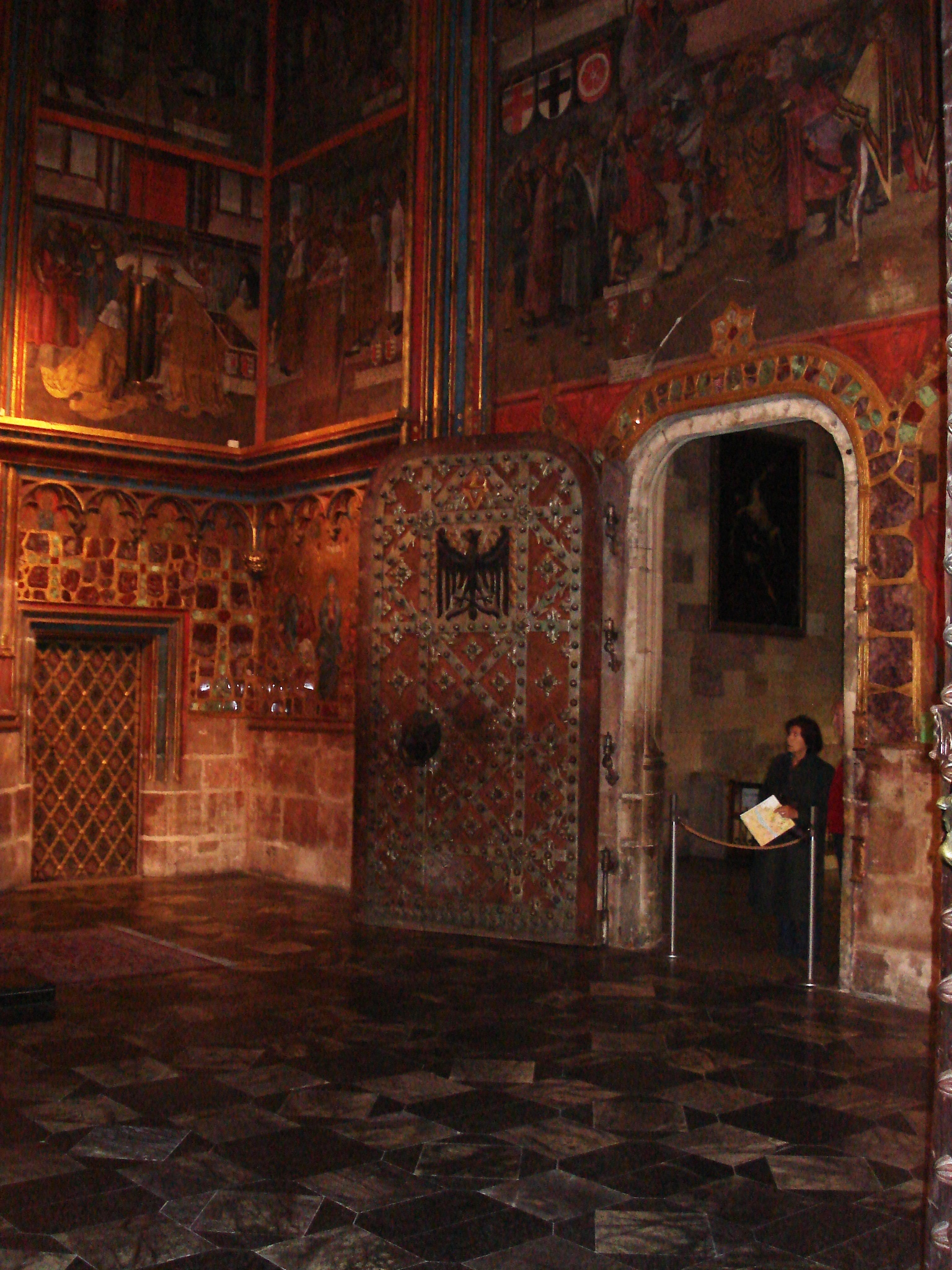 Chapel of St Venceslas in Cathedral of St Vitus, Prague Castle.